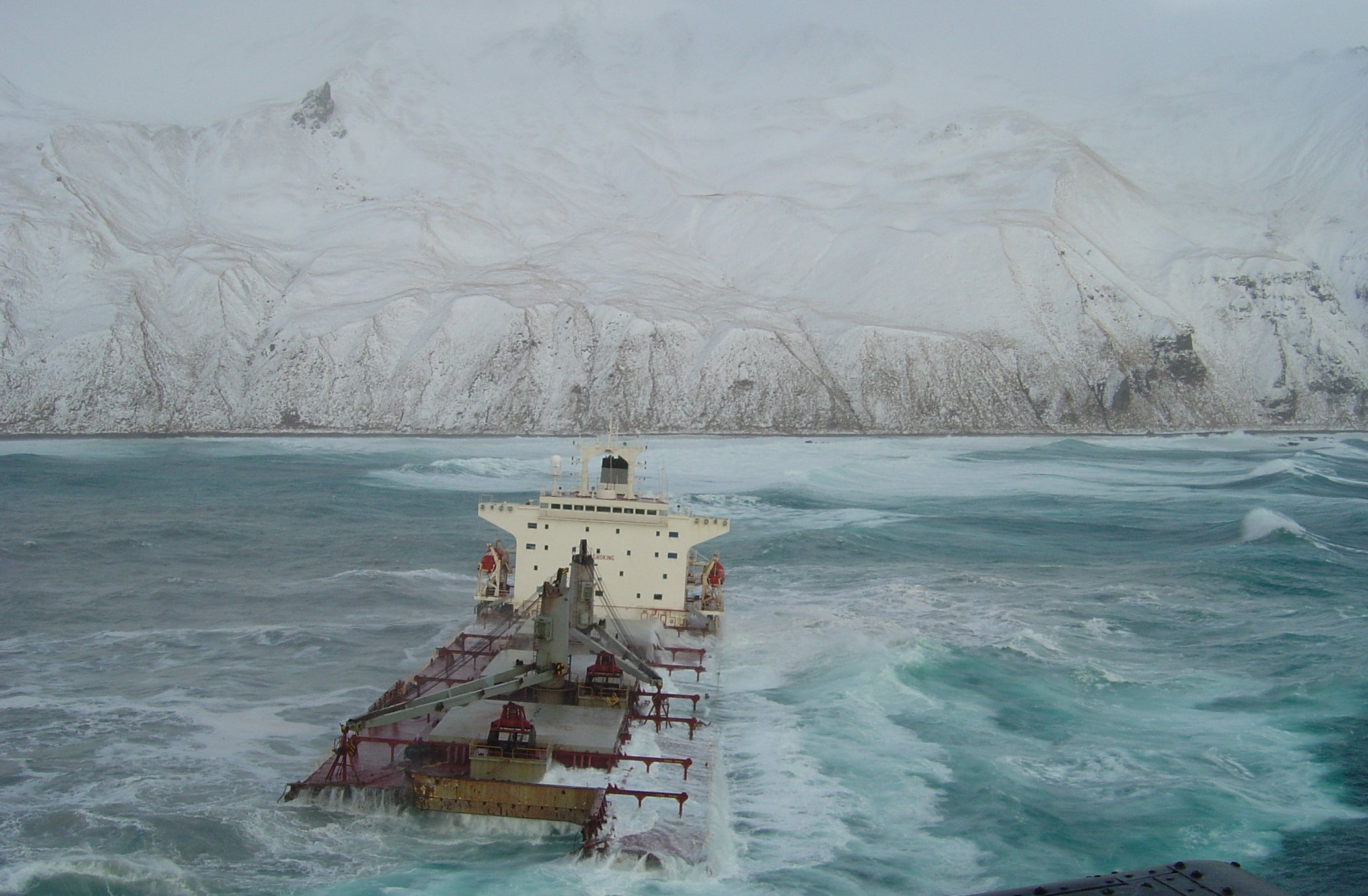 Bulk carrier Selendang aground on Unalaska Island. Although carrying a cargo of soybeans, the ship spilled approximately 350,000 gallons of fuel oil and diesel oil. Alaska, Aleutian Islands, Unalaska Island.